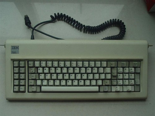 IBM Ml67 Keyboard